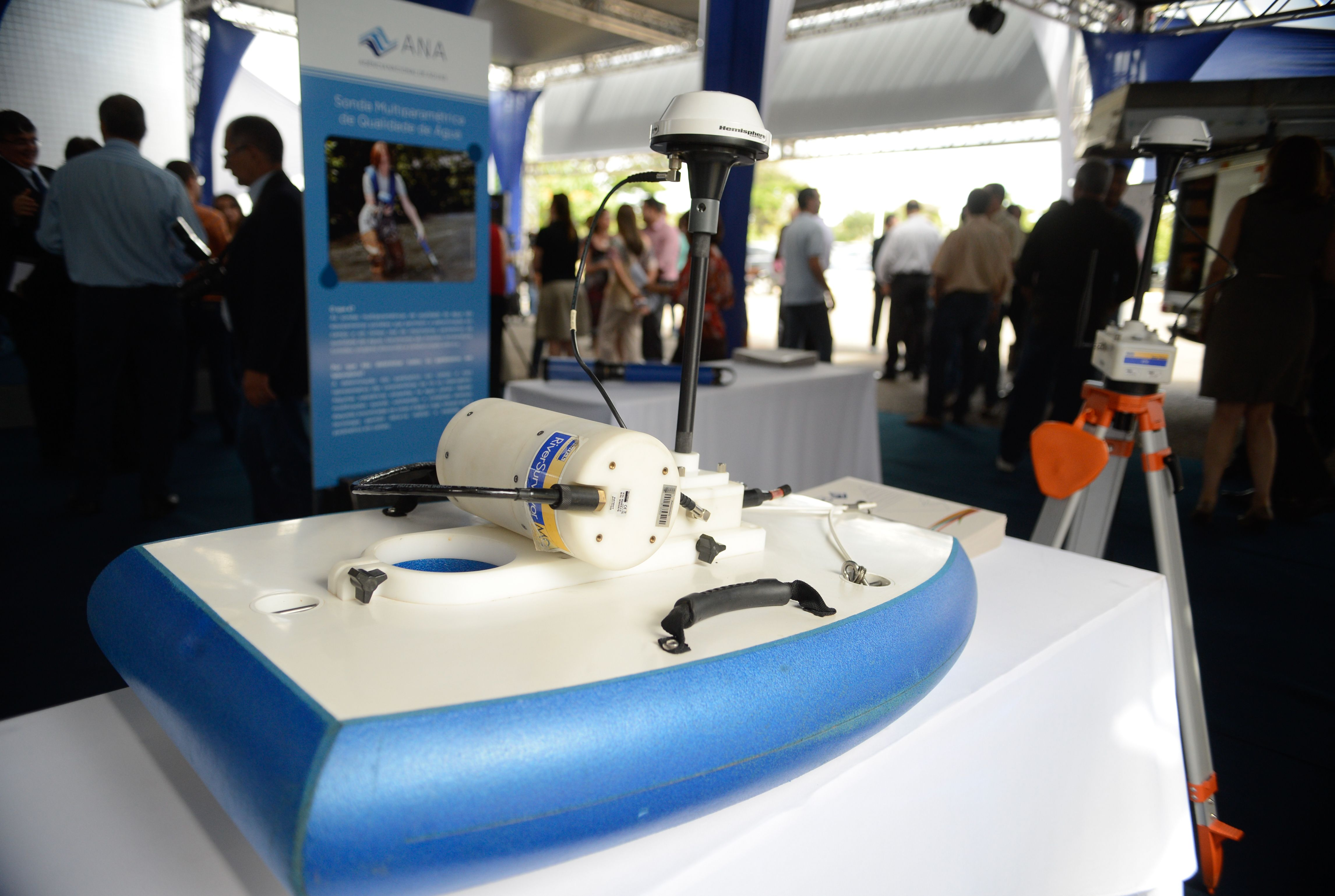 Photo by Marcelo Camargo/Agência Brasil published under a CCBY3.0 license